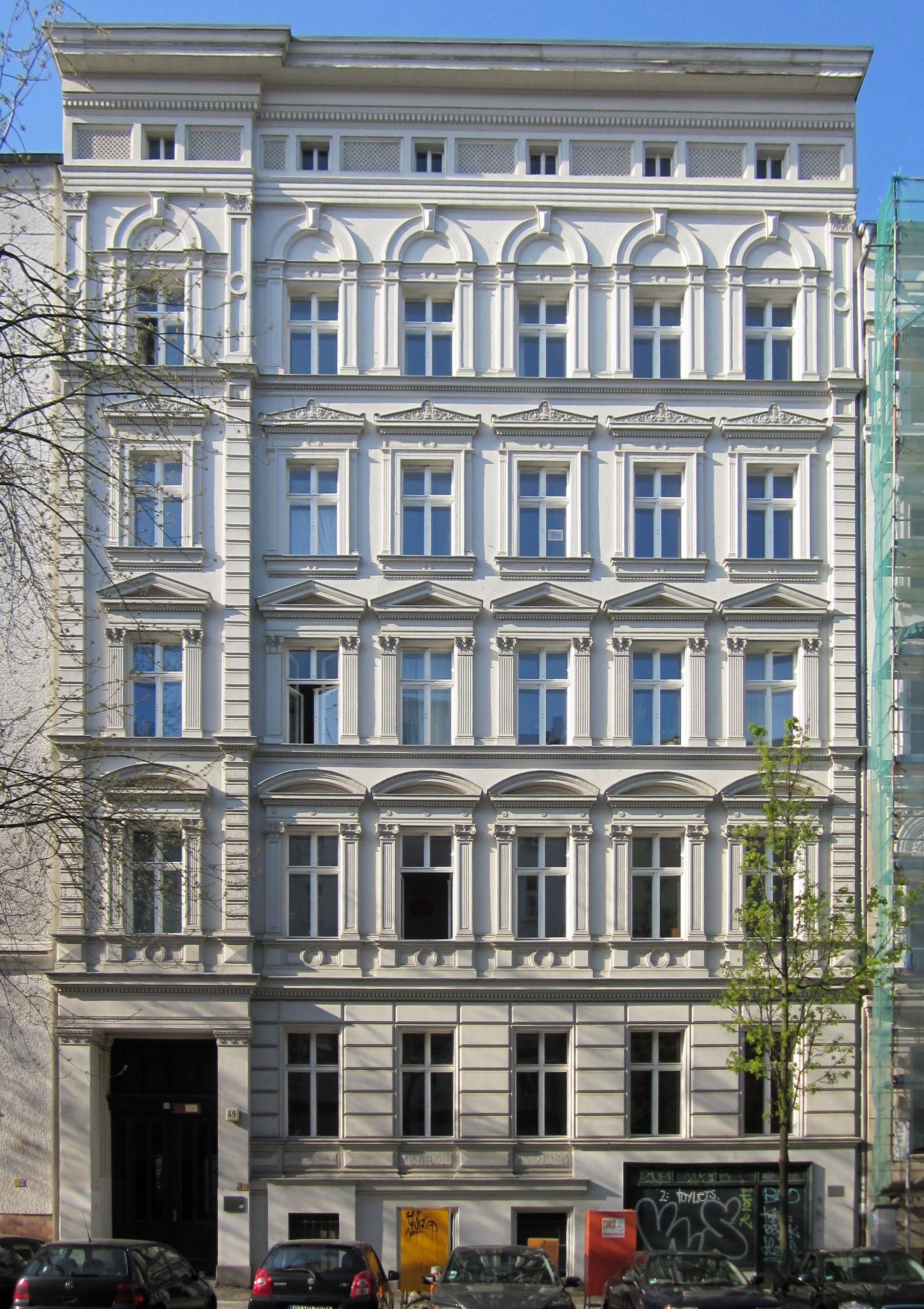 Residential building Fehrbelliner Straße 49 in Berlin-Mitte. The house was built in 1877. It has been designated as a historic landmark.